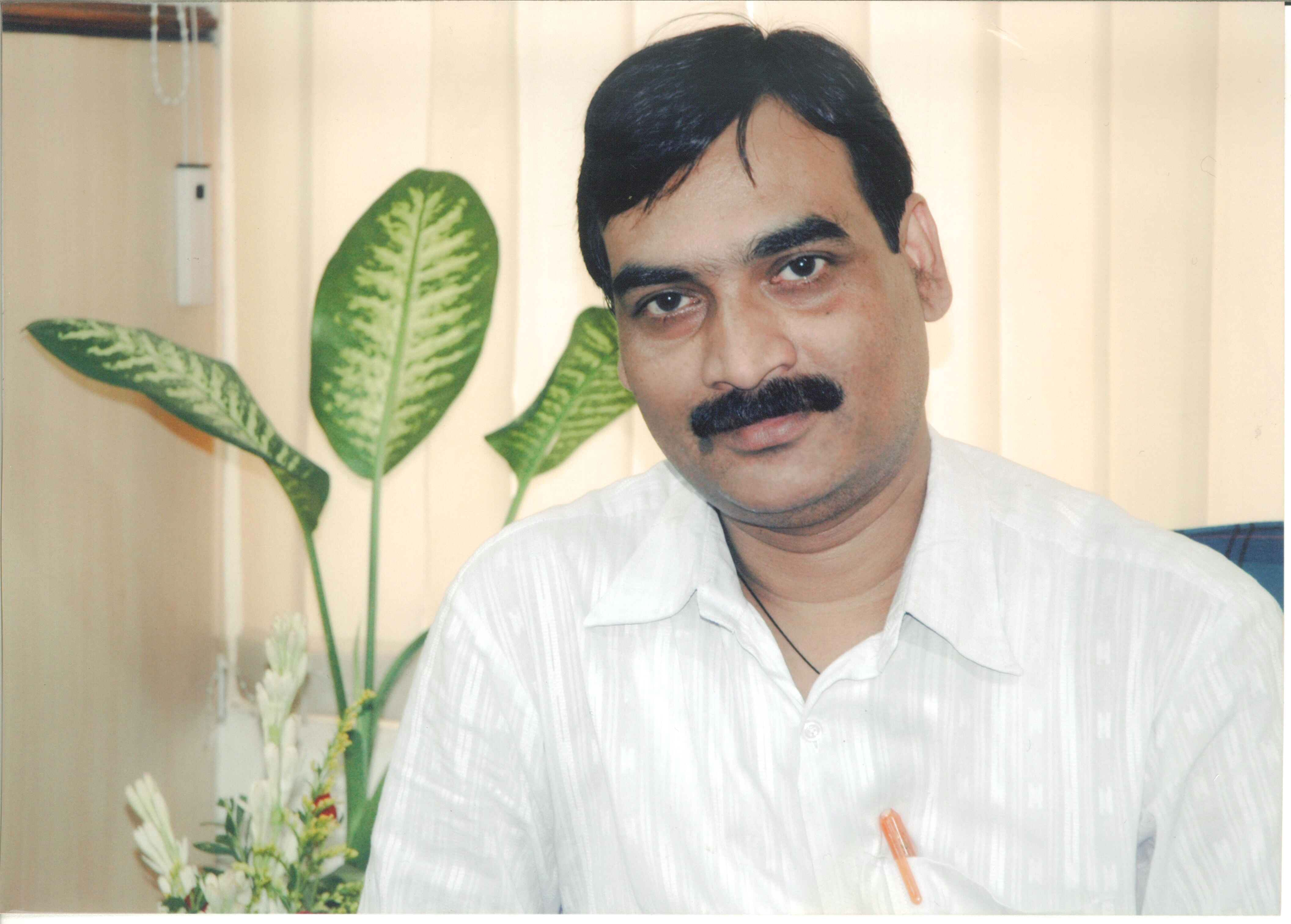 Indian fiction Writer Ravindra Prabhat in his home in 14 December 2008